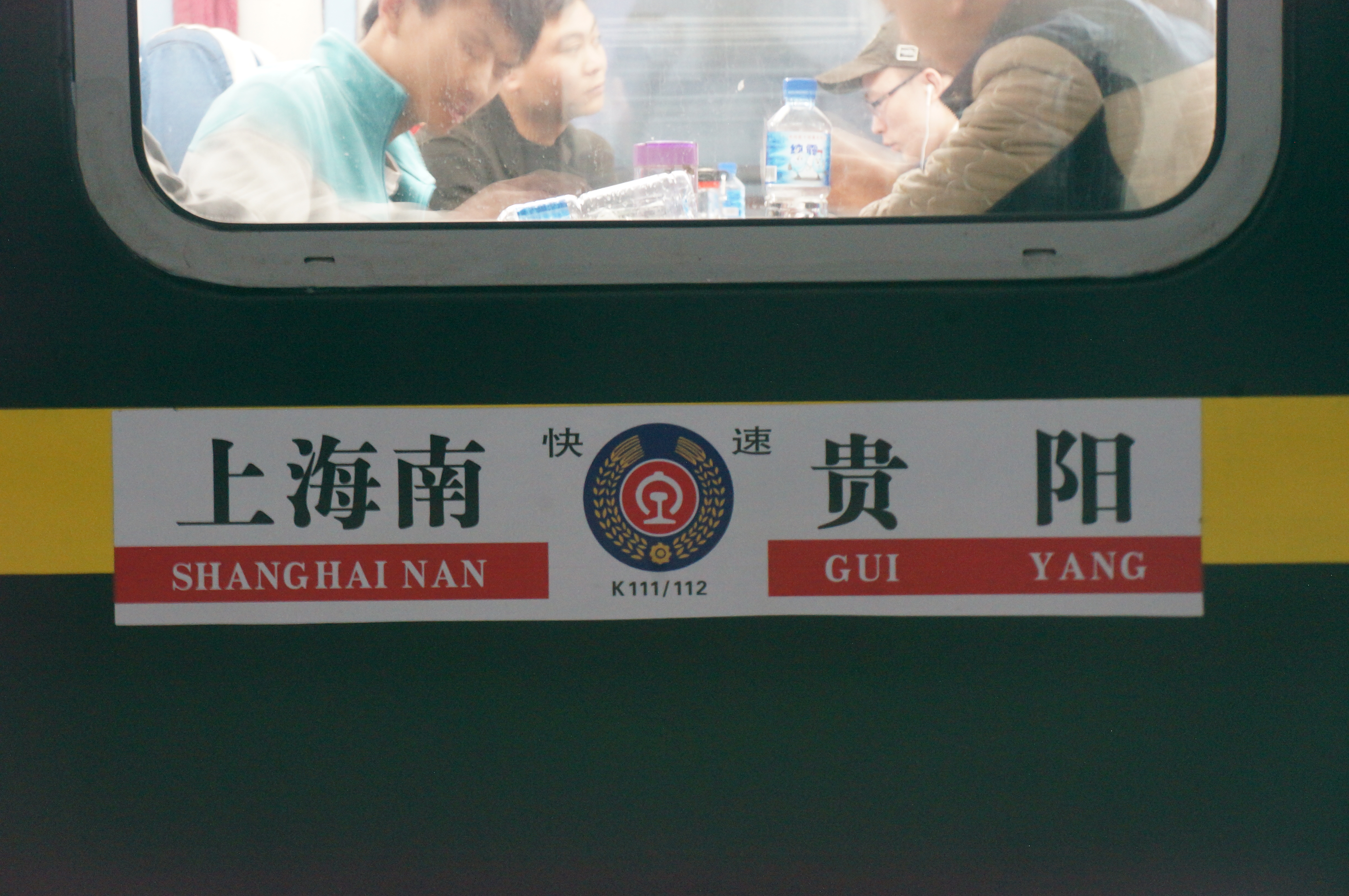 K111 2 info board in 201703, taken at Hangzhoudong Station